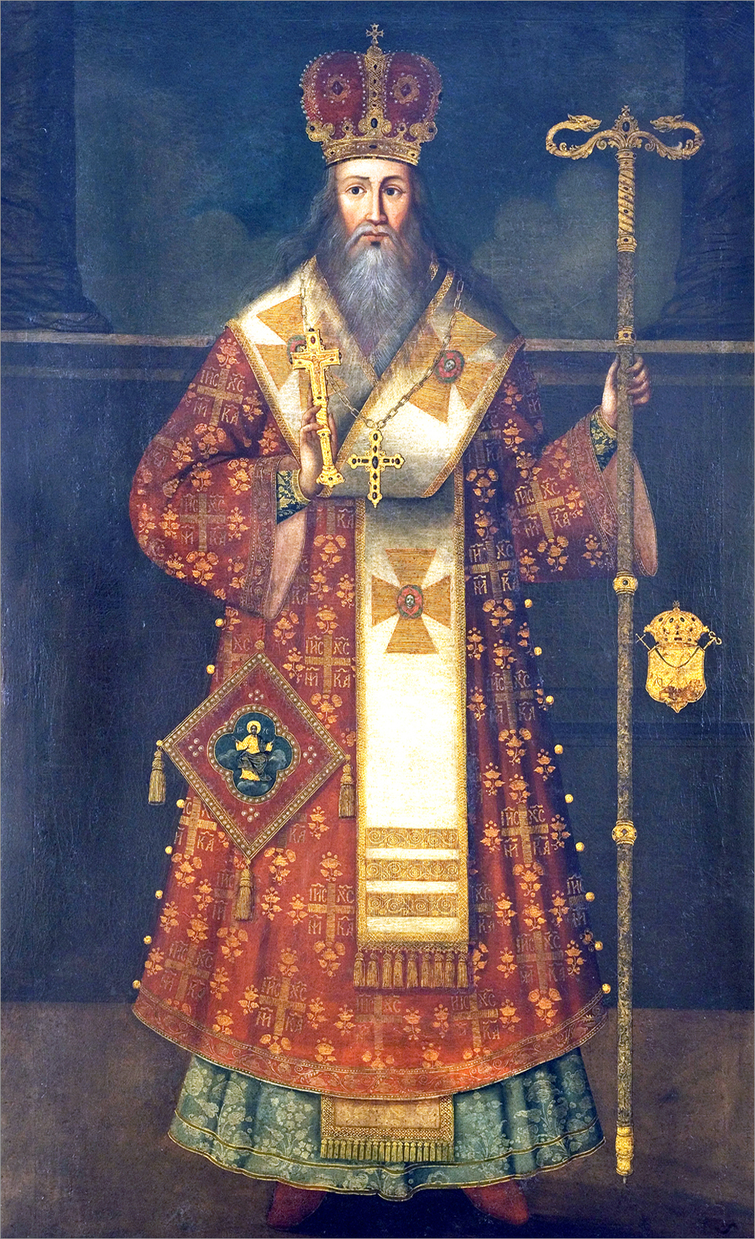 Jov Vasilijevič, Patriarch Arsenije III Čarnojević, 1744, Museum of the Serbian Orthodox Church, Belgrade.[1]